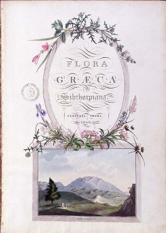 The title or cover page to the John Sibthorp's Flora Graeca.